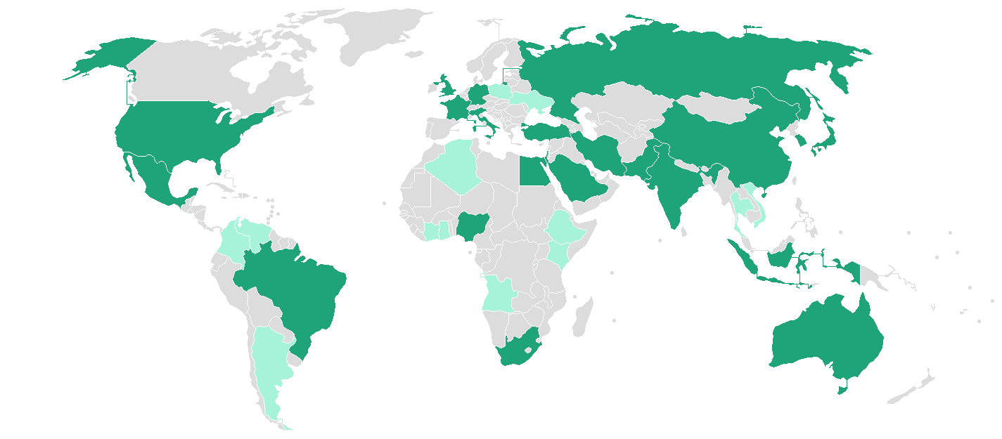 RP2012